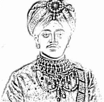 Raja Ganesh Danujmardandev